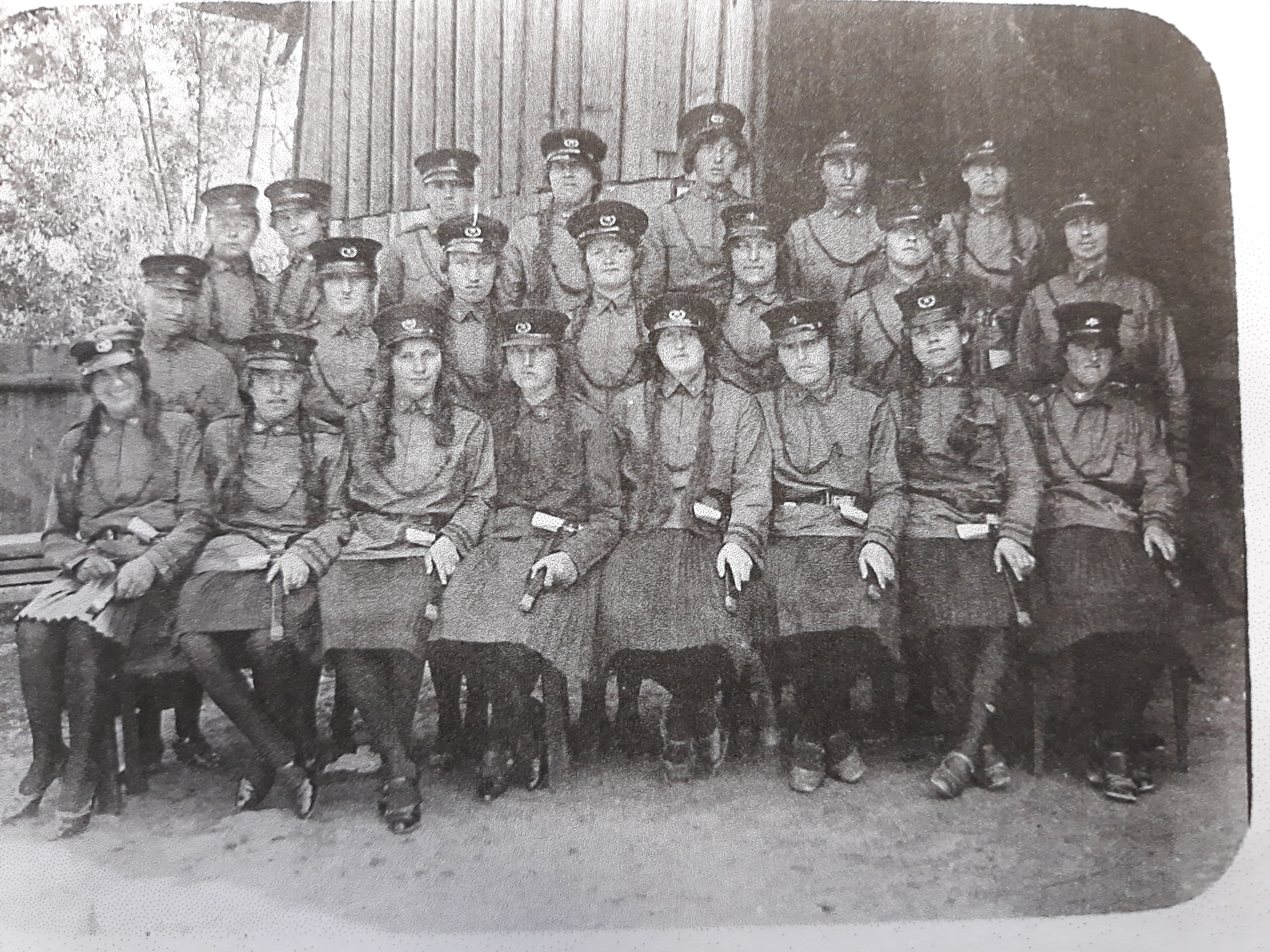 Women free firecorp of Böhmisch Liebau, firecorp celebration in 1930